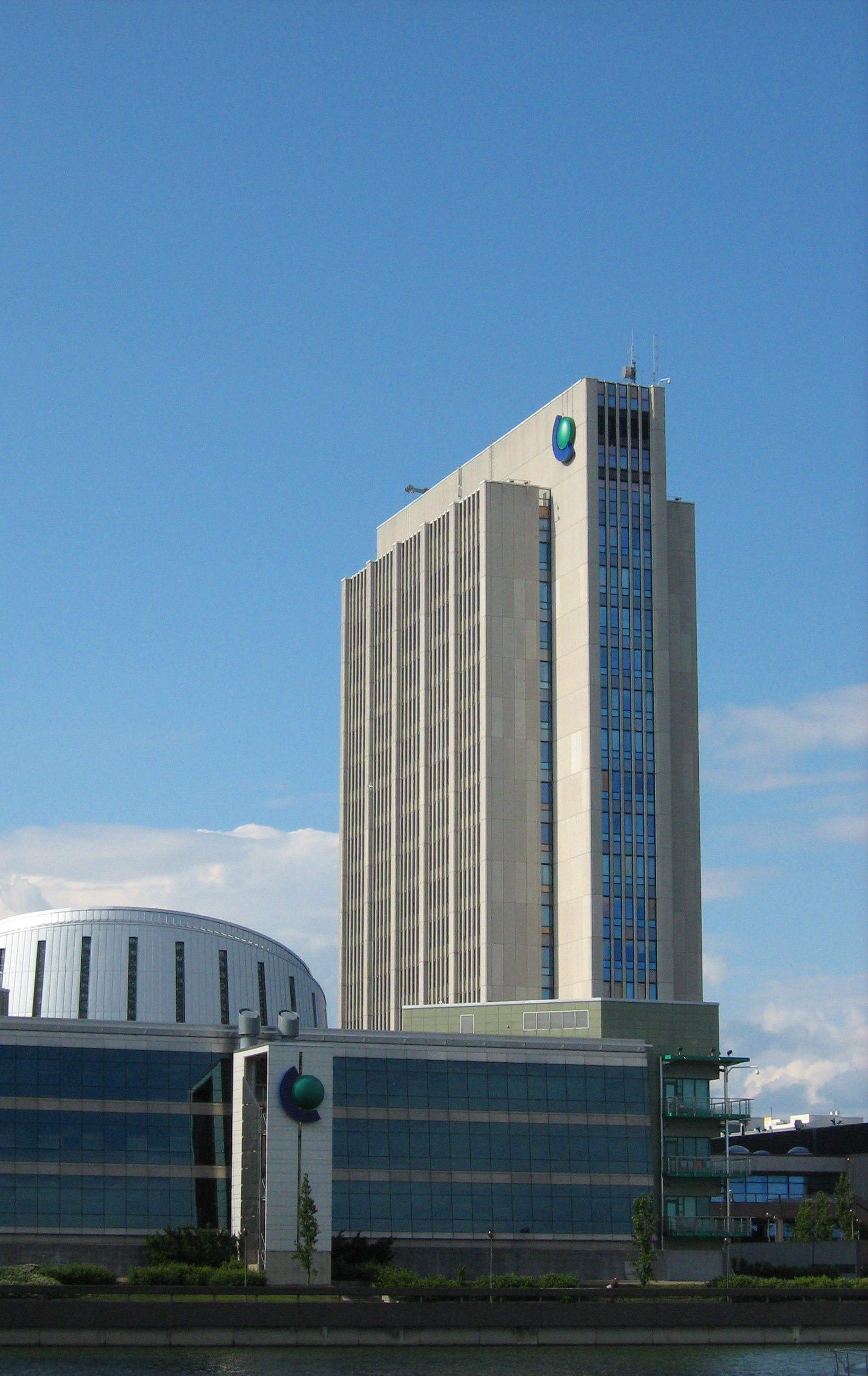 Fortum HQ in Keilaniemi, Espoo, Finland